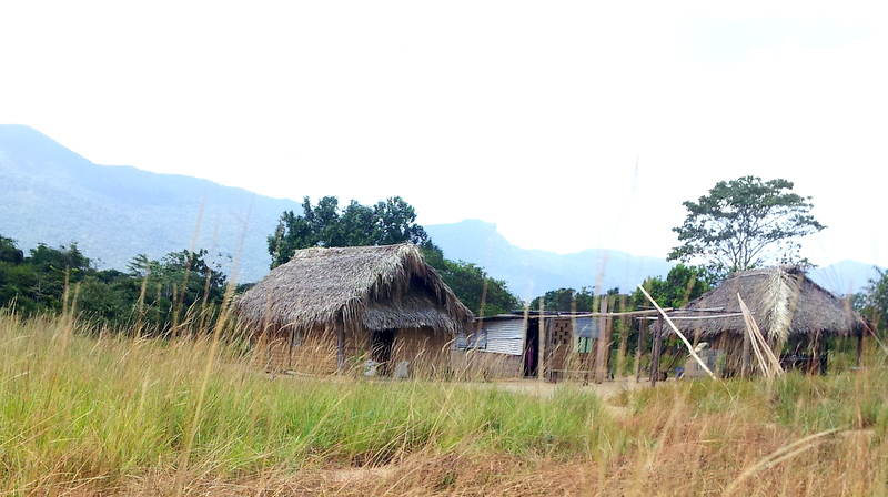 macushi